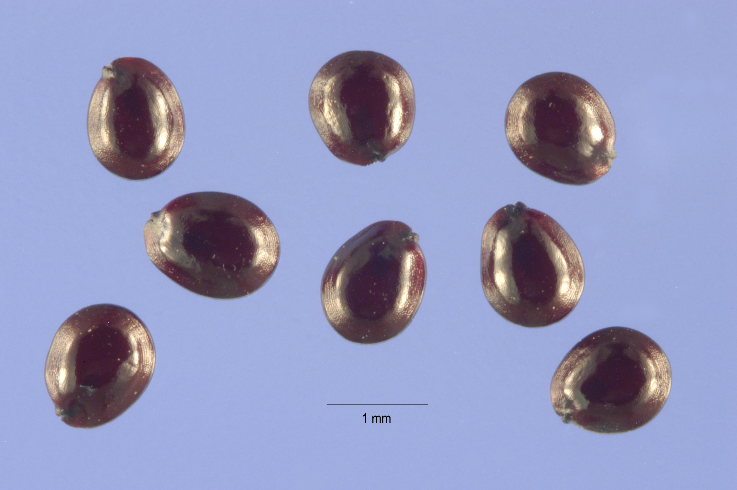 Amaranthus powellii seeds from ARS Systematic Botany and Mycology Laboratory. United States, Arizona, Mormon Lake.